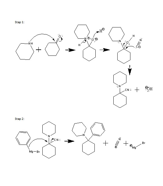 elektronenoverdacht